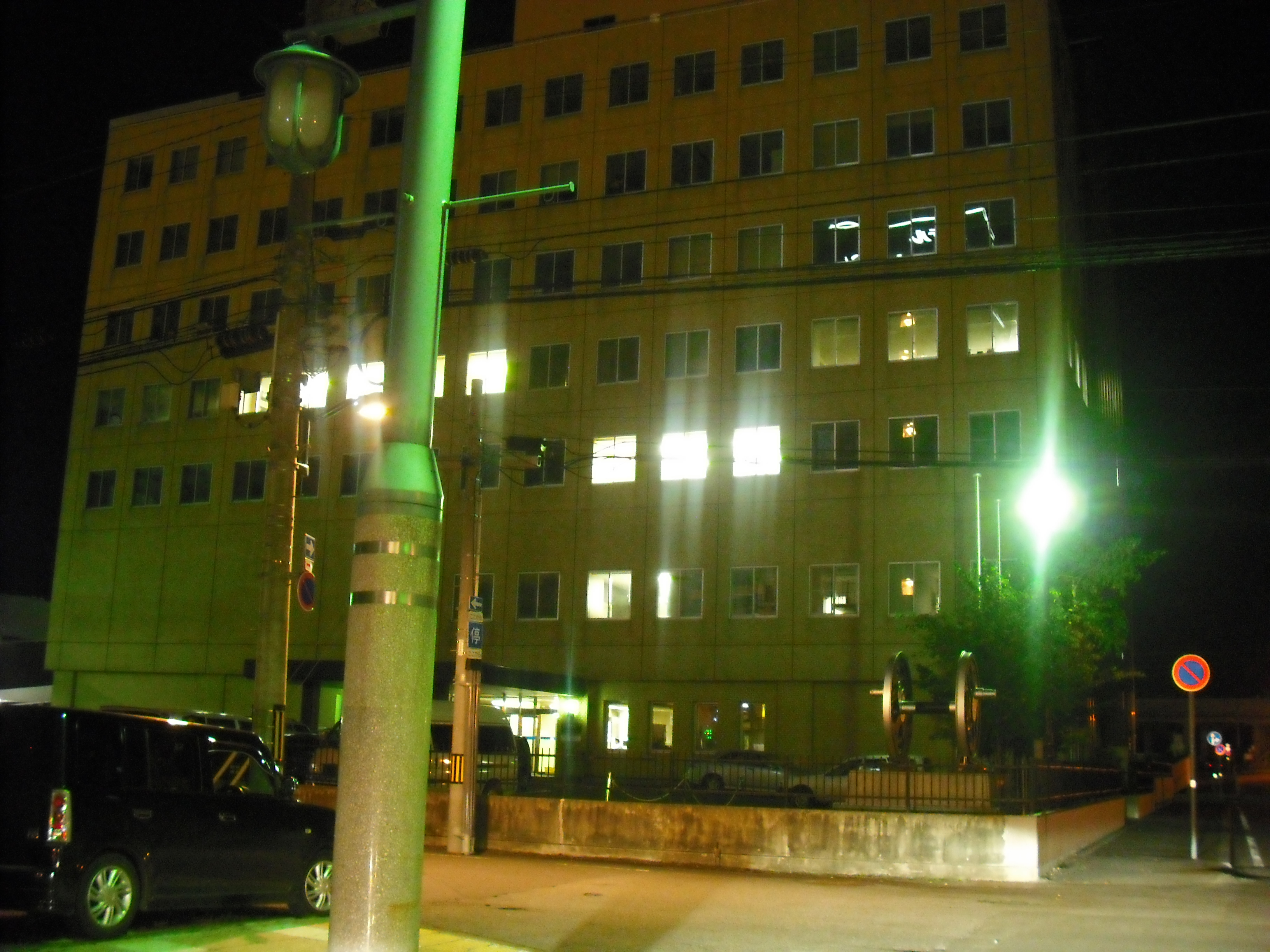 JR Hokkaido Asahikawa Branch Office